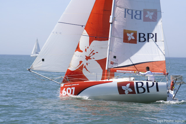 Picture of the skipper Francisco Lobato in the Wintermantel Regatta 2008 Lisbon-Sesimbra